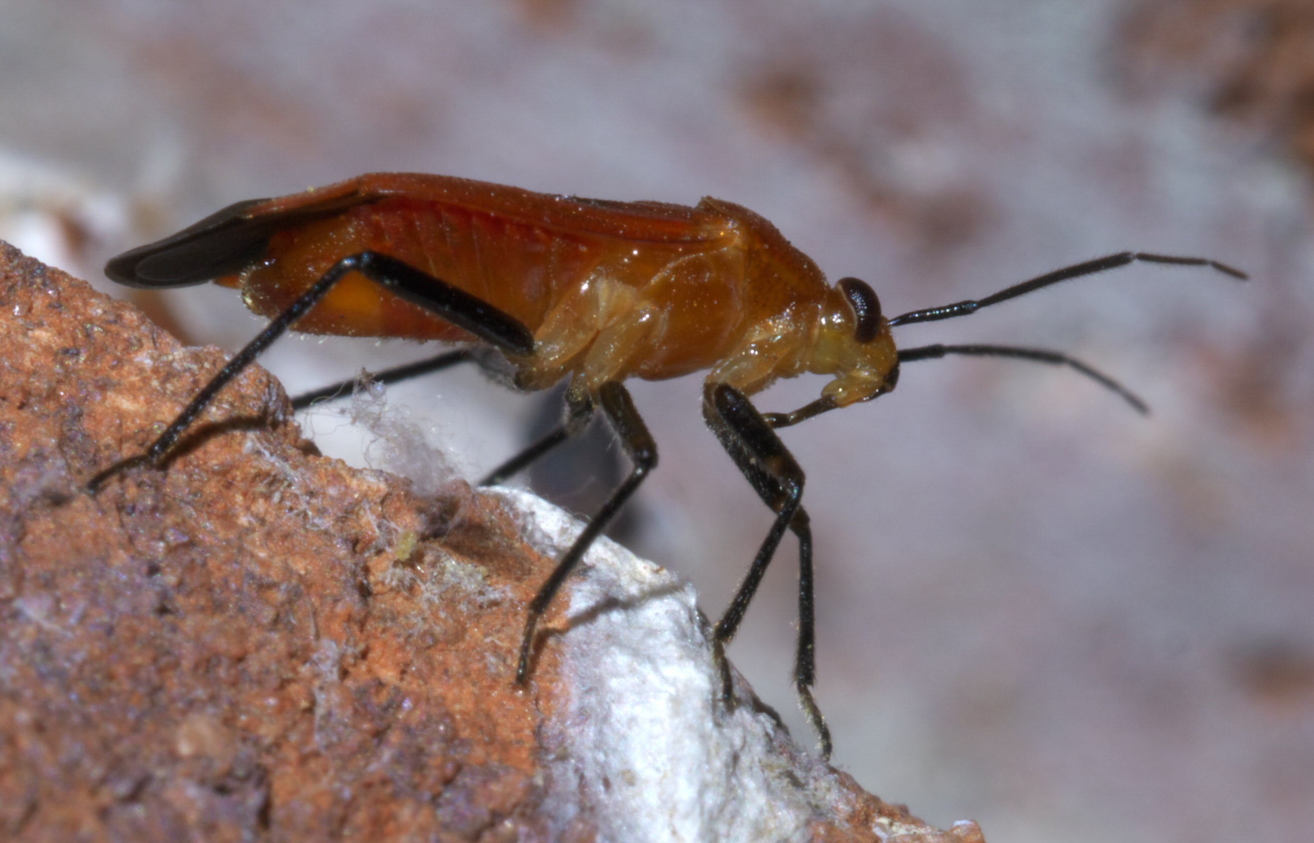 Tropidosteptes cardinalis, Family: Plant Bugs, Size: 6 mm, ID Confidence: 98